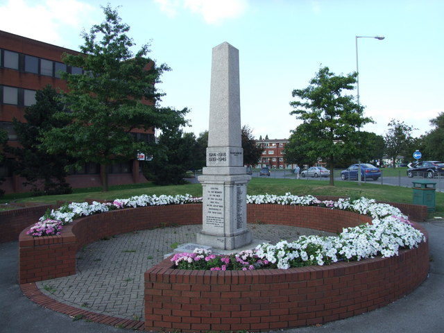 War Memorial Borehamwood The Borehamwood Memorial was dedicated on 20 October 1921 and was moved in 1957 to its present site opposite the Elstree Film Studios, on the side of a busy Shenley Road.